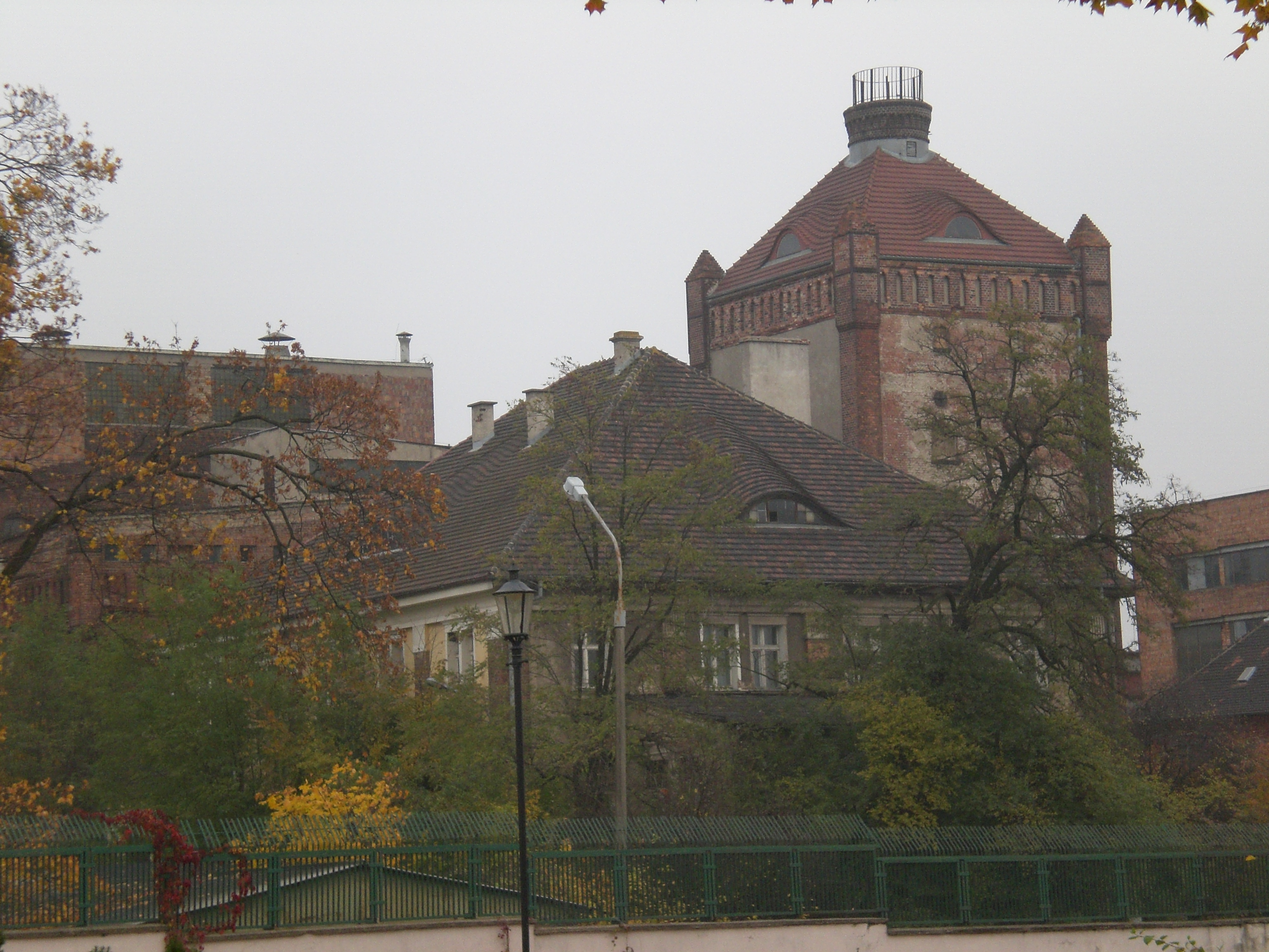 Former brewery in Gdańsk Wrzeszcz